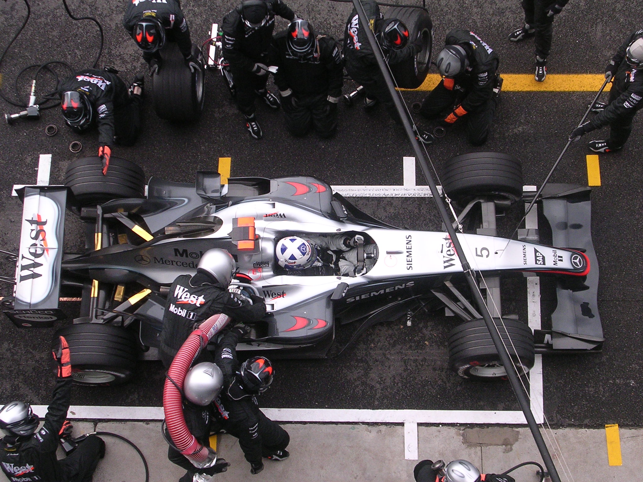 Pit stop of the McLaren MP4-19 at the Autrodomo Nazionale of Monza (italy) during a race of the 12th september 2004.